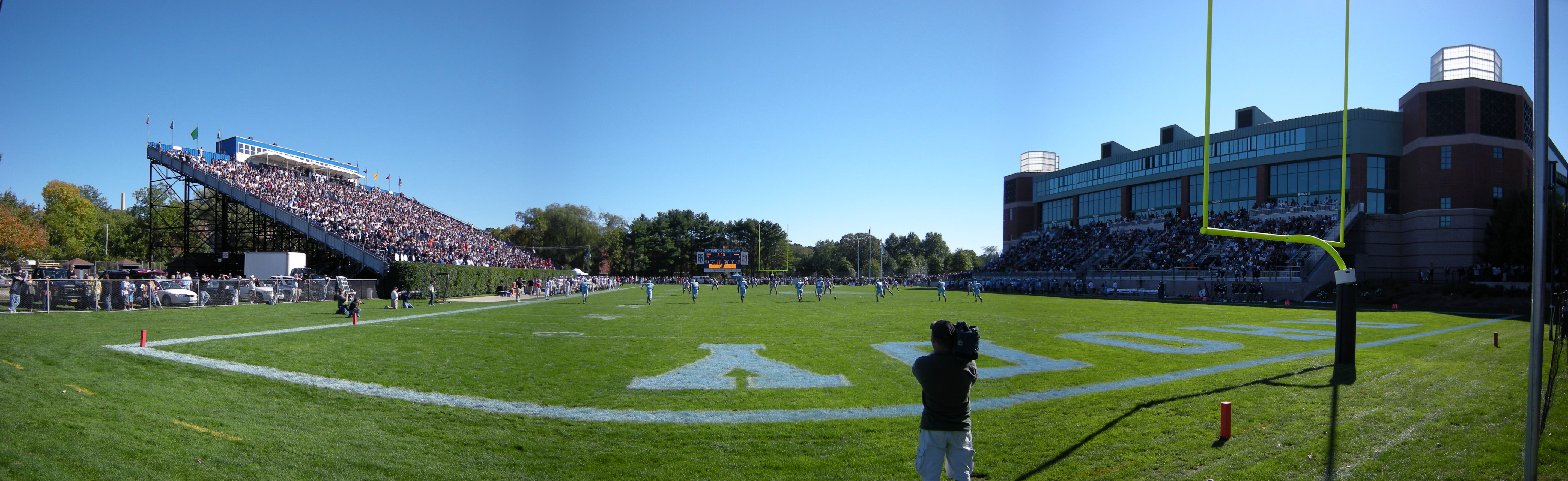 Meade Field Football Game